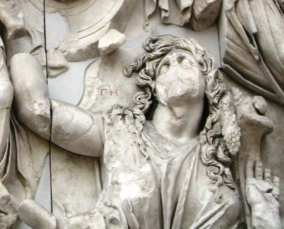 part of the Gigantomachy frieze of the Pergamon Altar. Gaia pleads with Athena to spare her sons.